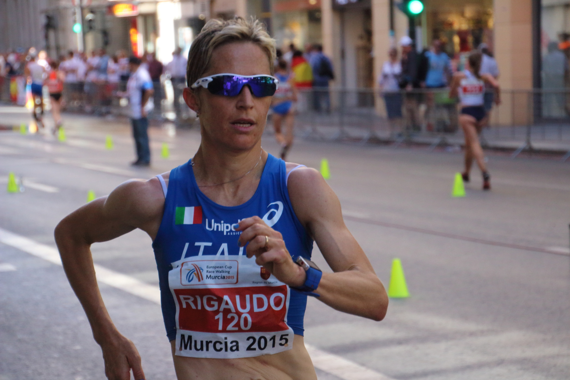 Elisa Rigaudo, italian race walker, in the European Cup Race Walking 2015 (Murcia, Spain).